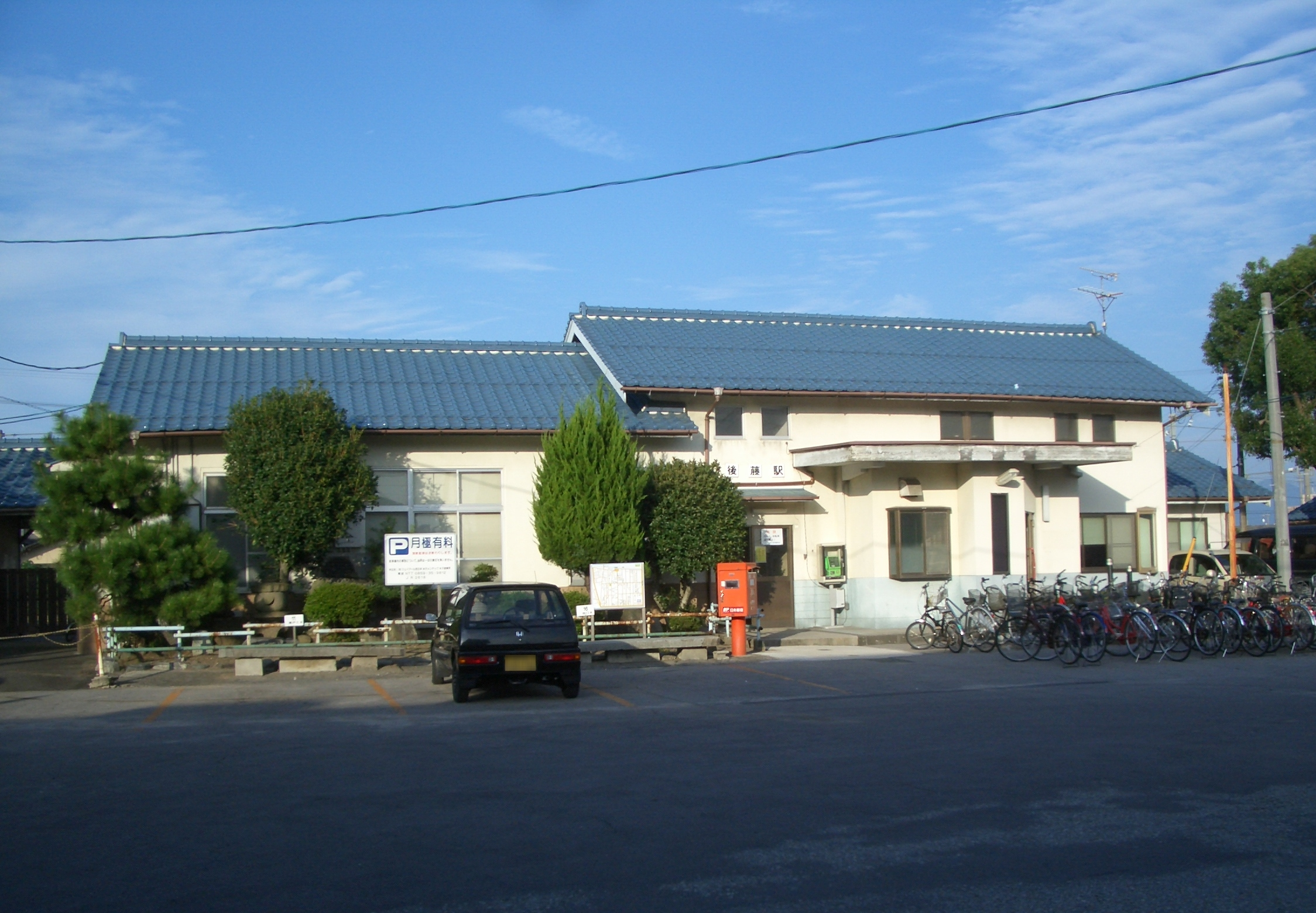 Gotō Station - West Japan Railway Company Sakai Line